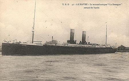 Postcard of SS La Bretagne